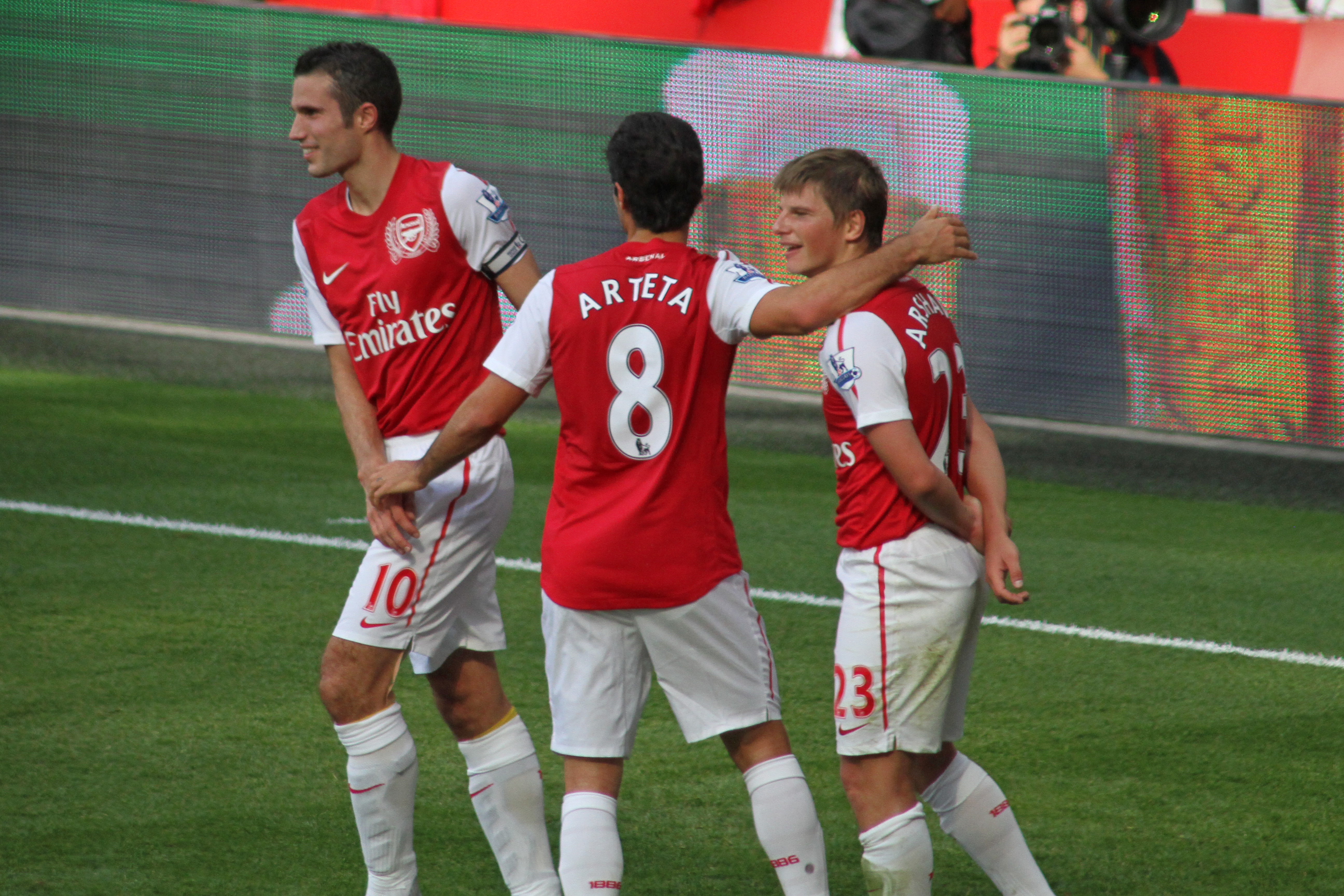 Robin van Persie, Mikel Arteta and Andrey Arshavin of Arsenal celbrate a goal by Arshavin against Swansea.